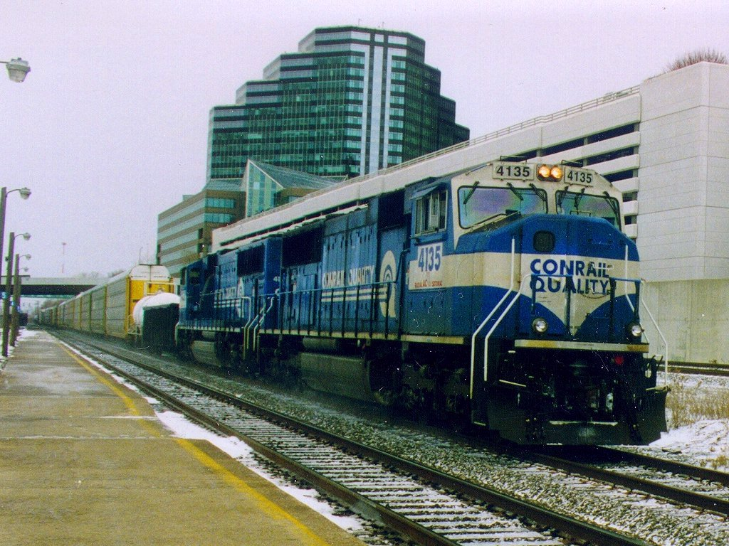 Conrail "White Smiley" SD-70MAC seen in Cleveland, Ohio with an autorack train